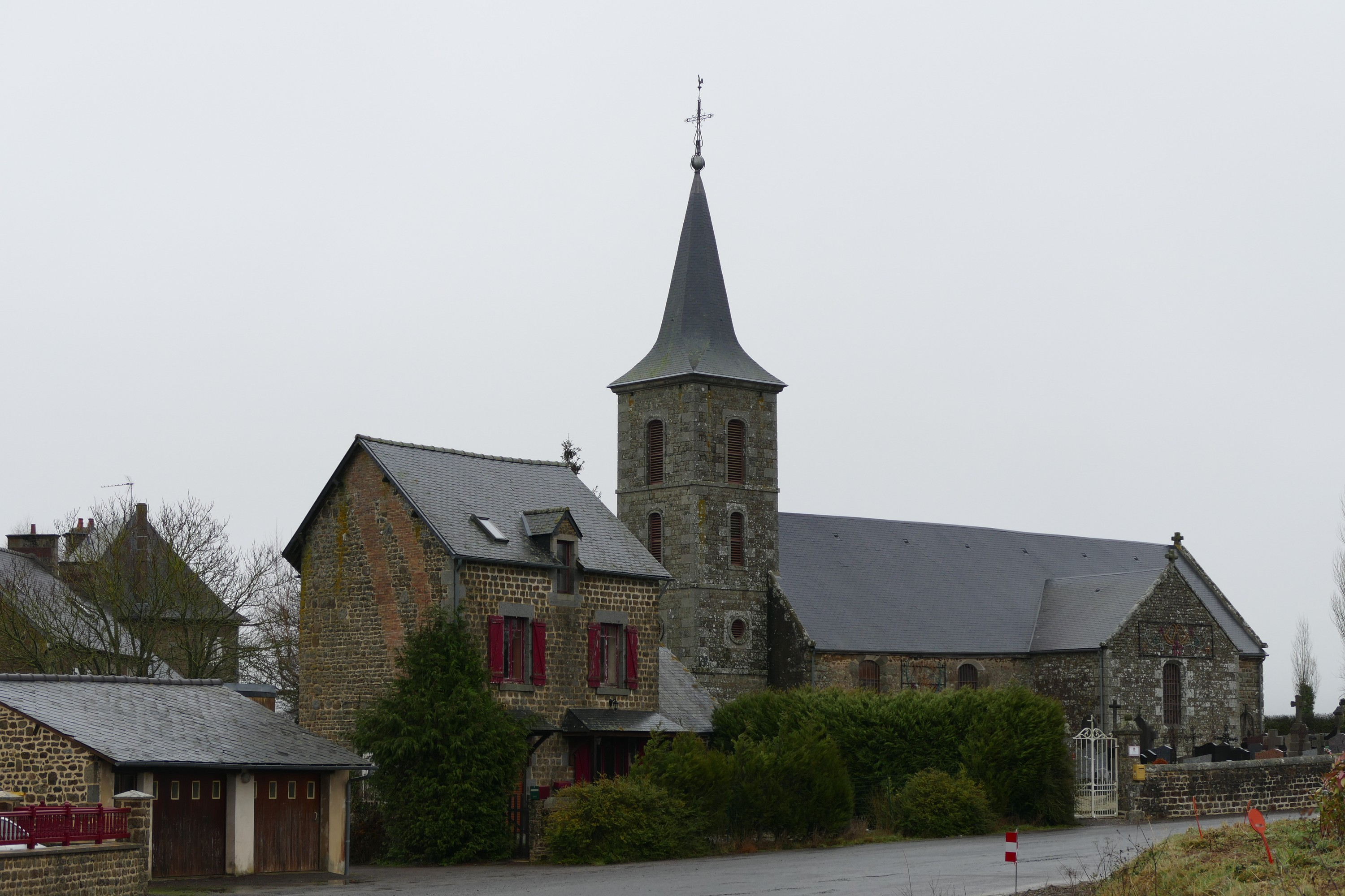 Saint-Martin's church in Saint-Martin-des-Landes (Orne, Normandie, France).